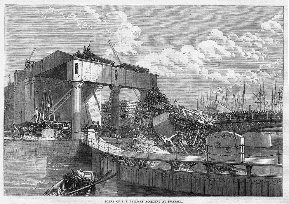 Sensational image of result of a coal train passing over an open bridge at Swansea on 29 November 1865